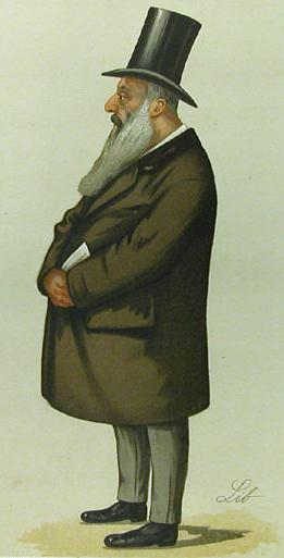 Caricature of Samuel Montagu, 1st Baron Swaythling. Caption reads "Whitechapel" (his Parliamentary constituency).